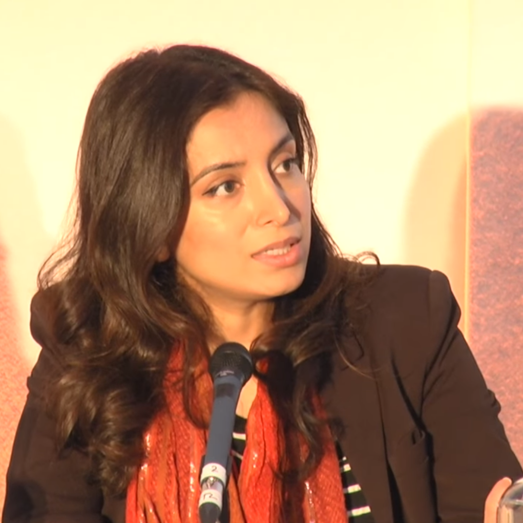 Deeyah Khan on Islam's Non-Believers Panel Discussion at the International Conference on Free Expression and Conscience, London, 22-24 July 2017 (#IWant2BFree).